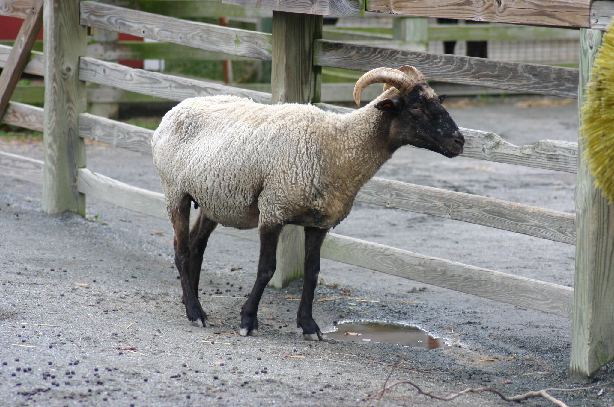 Hog Island sheep at the Norfolk, Virginia zoo